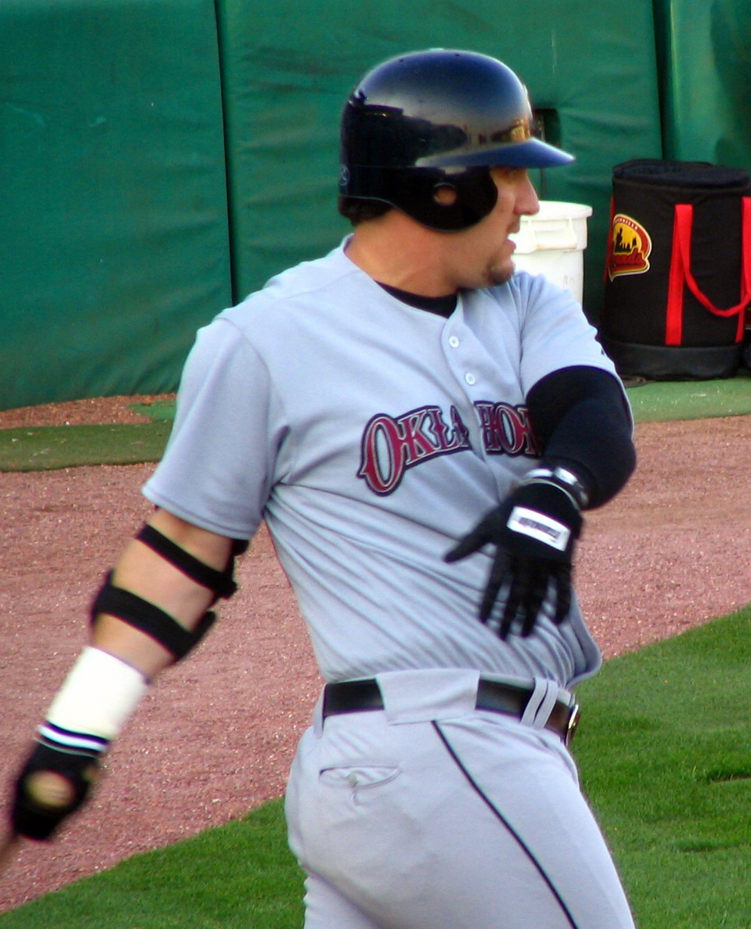 Erubiel Durazo batting for the Oklahoma RedHawks in 2006